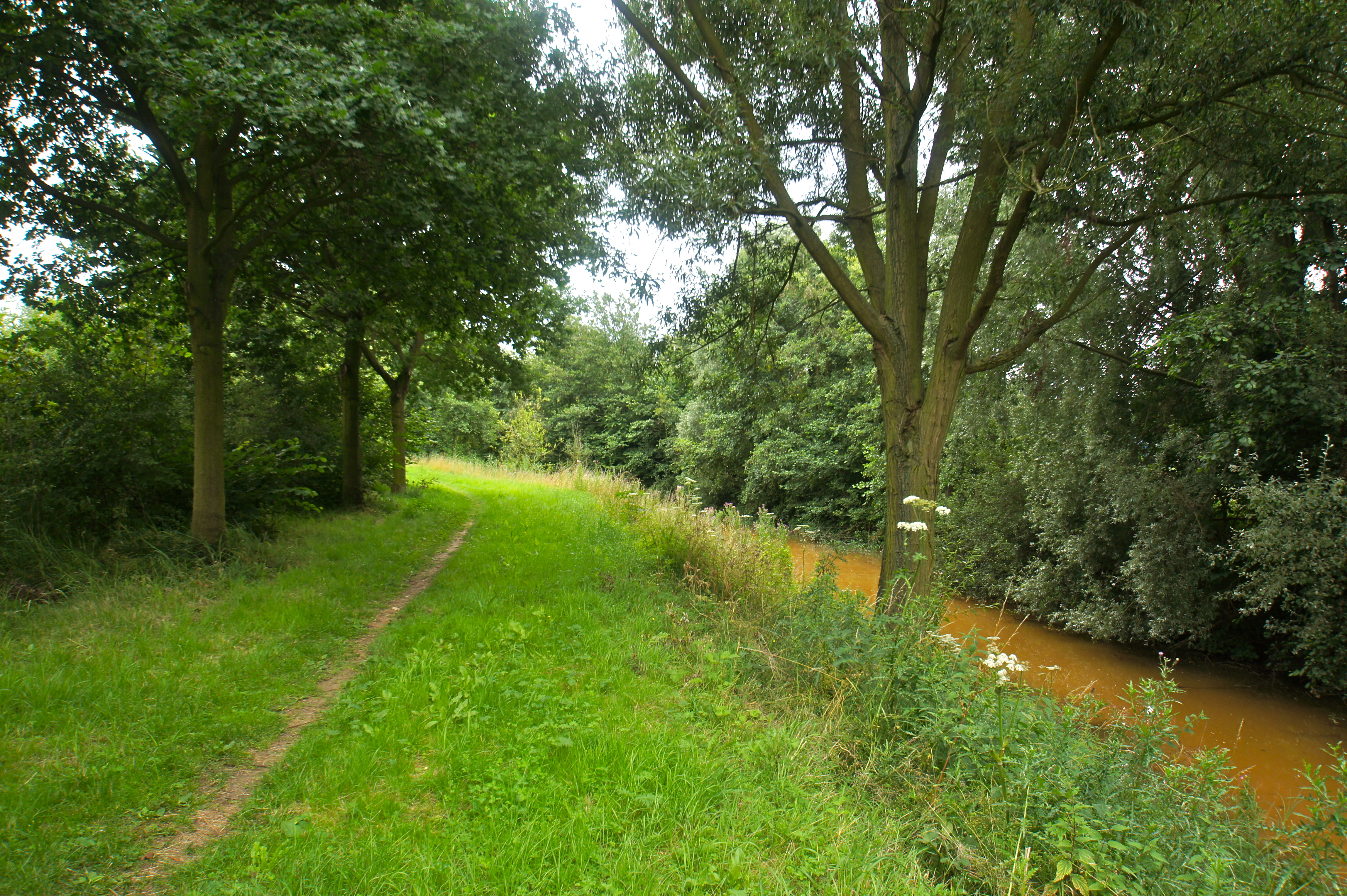 Hamburg (Wilhelmsburg), Germany: The footpath along the Südlicher Wilhelmsburger Wettern